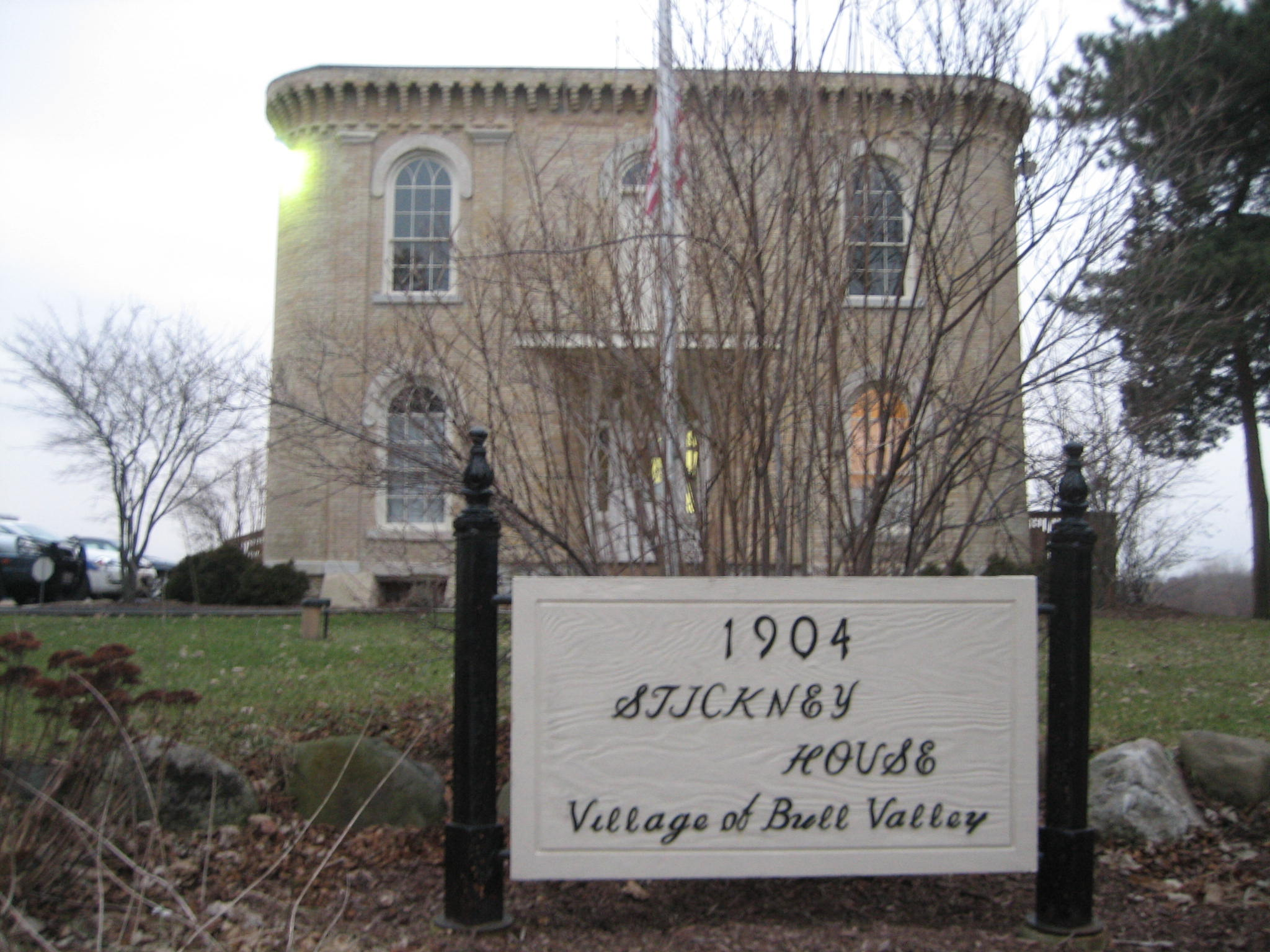 George Stickney House, Bull Valley, Illinois, National Register of Historic Places.